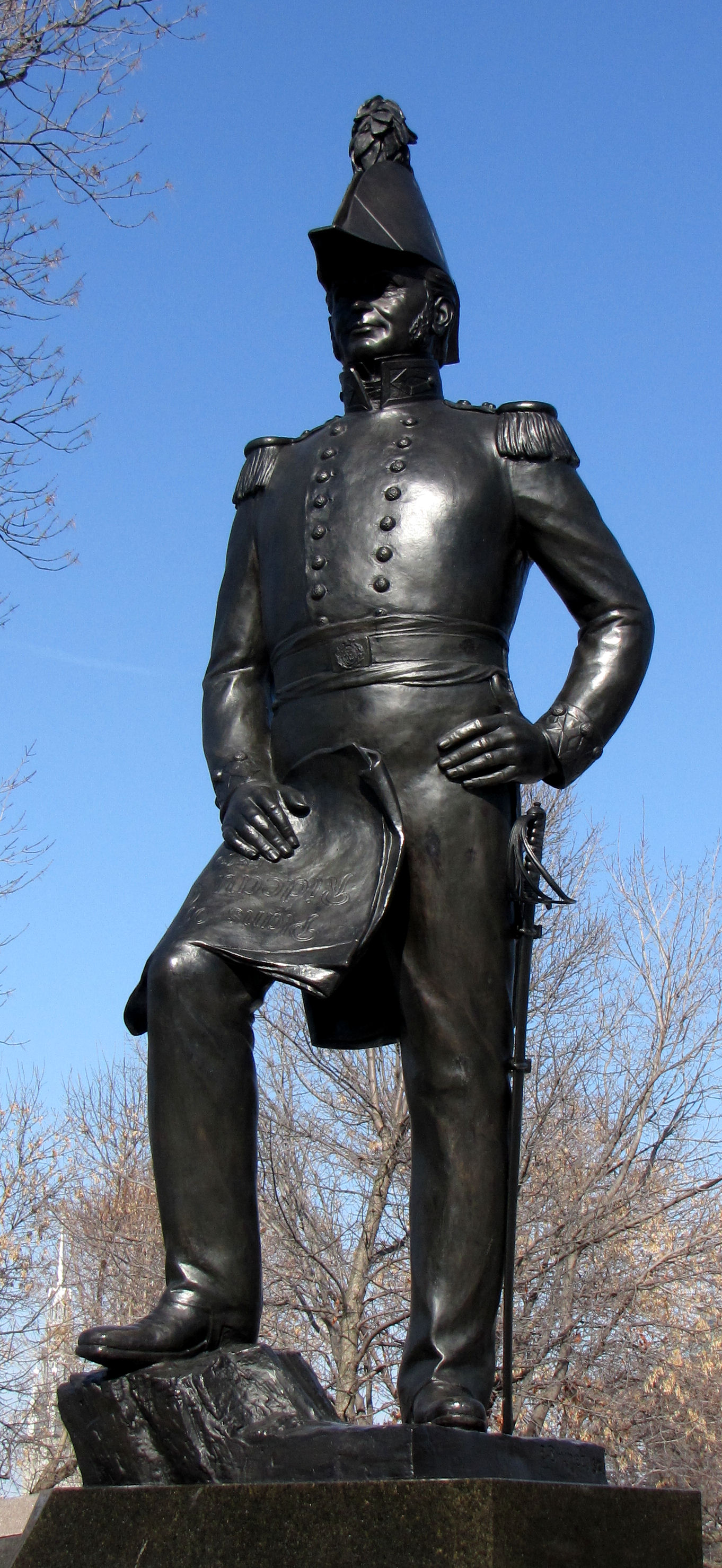 Lieutenant-Colonel John By statue scupted by Joseph-Émile Brunet, Major's Hill Park, Ottawa, Ontario, Canada